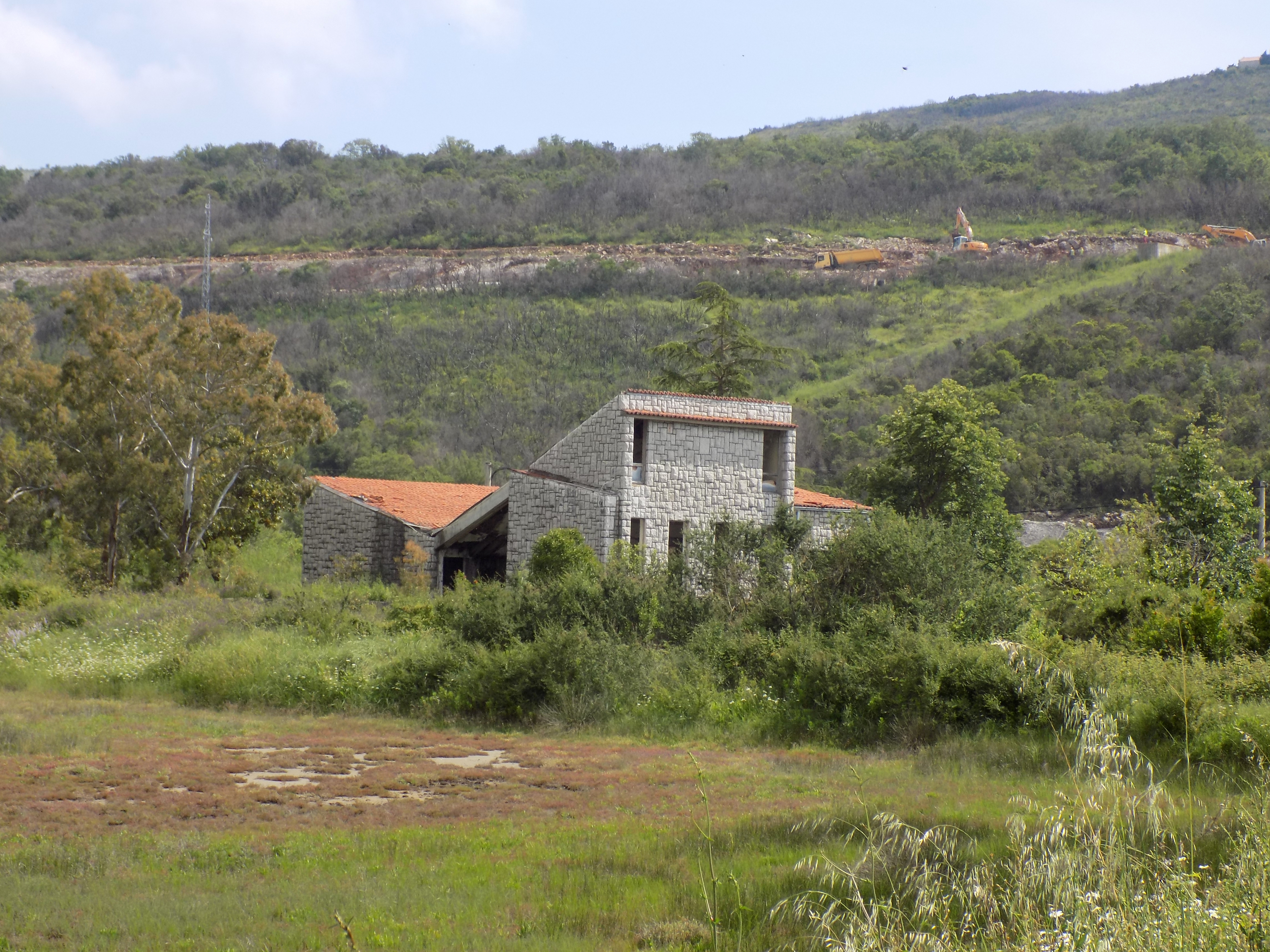 Special Nature Reserve "Solila", Tivat Municipality, Montenegro - the former administrative building of Tivat Saltern